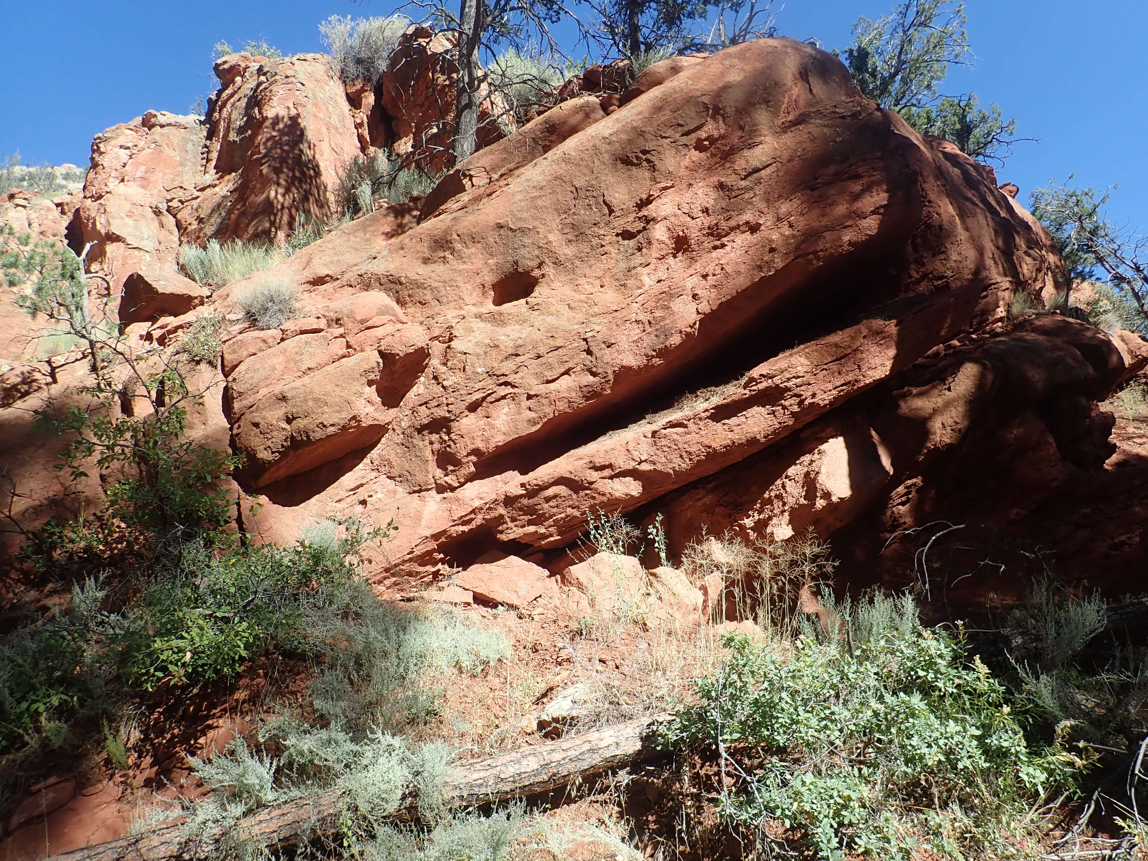 This is an outcrop of Galisteo Formation redbed sandstone in the eastern foothills of the San Miguel Mountains, part of the Banderlier Wilderness Area.